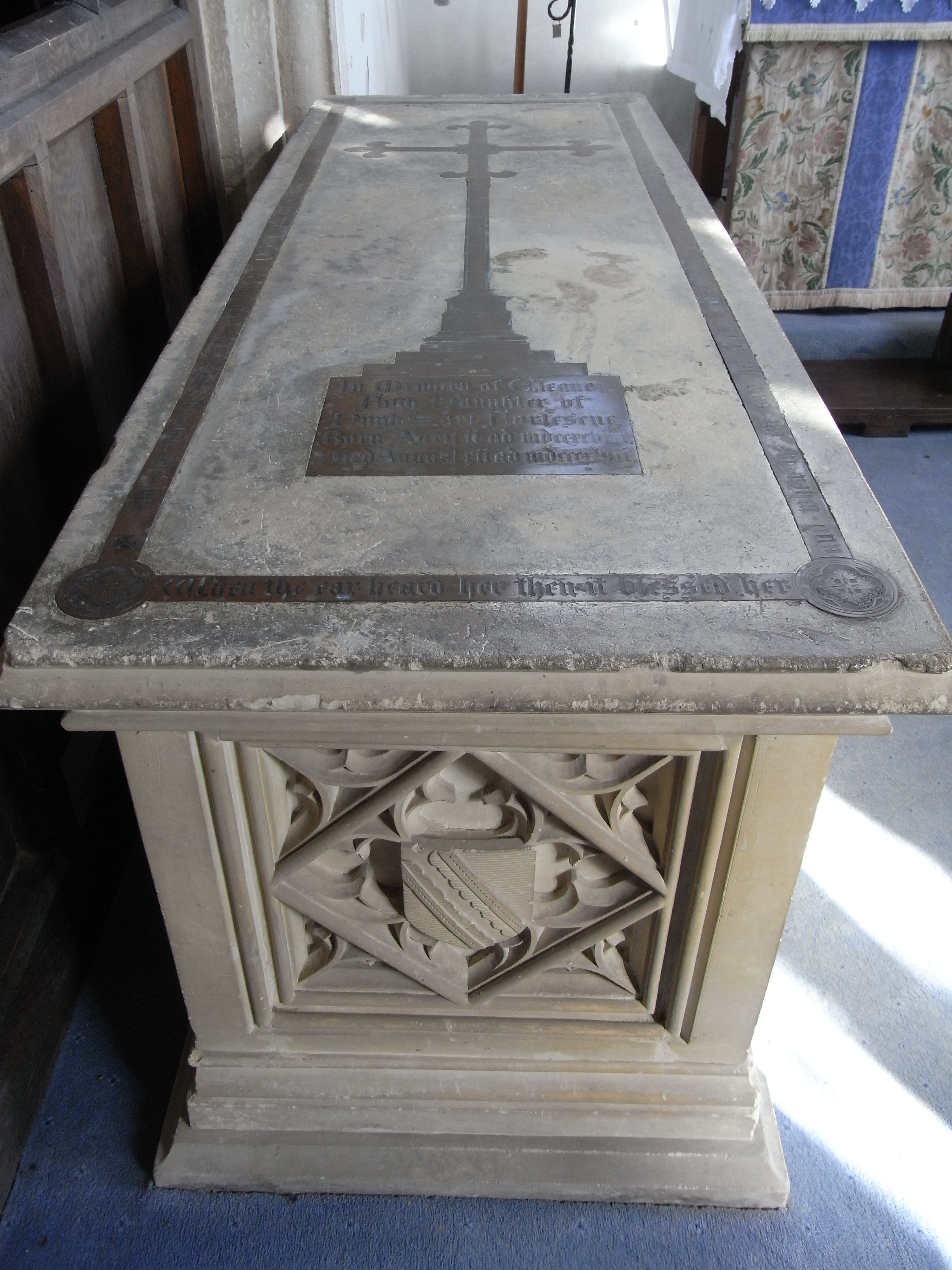 Chest tomb of Lady Eleanor Fortescue (1798-1847) 5th daughter of Hugh Fortescue, 1st Earl Fortescue, Weare Giffard Church, Devon